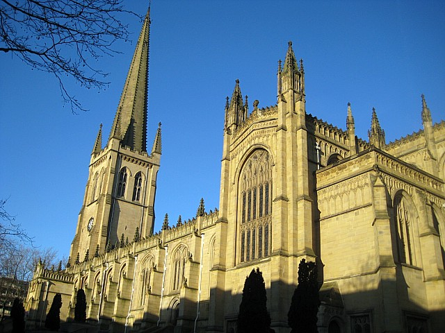 Wakefield Cathedral A church has stood on the site of Wakefield Cathedral in Kirkgate since Saxon times. The present building was built in the 14th century and restored in the 19th century, and is a grade I listed building. The parish church of All Saints was elevated to cathedral status when Wakefield became a city in 1888.